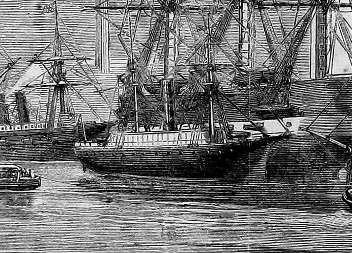 The gunboat USS Mount Vernon at the Brooklyn Navy Yard, June 1861. Behind Mount Vernon, dwarfing the gunboat, is USS Roanoke, while in the background left is the gunboat USS R. R. Cuyler.